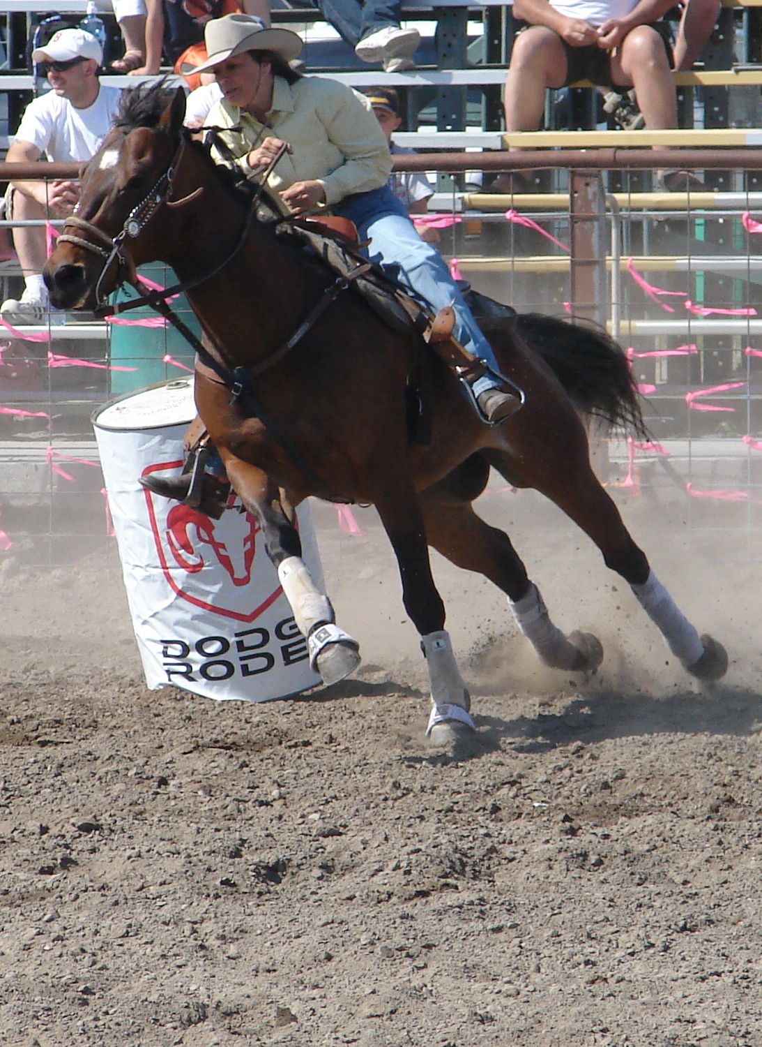 Barrel racing at Coulee City Last Stand Rodeo